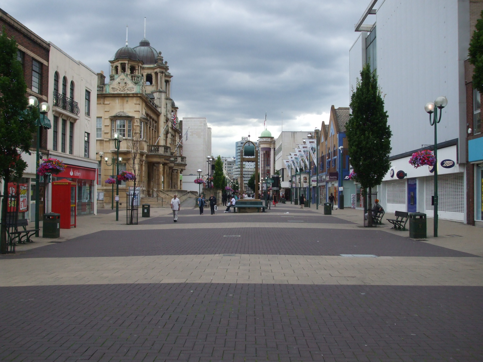 Ilford High Road (pedestrianised) looking west. Redbridge Town Hall visible on left, main entrance to Exchange Shopping Centre straight ahead in the distance.